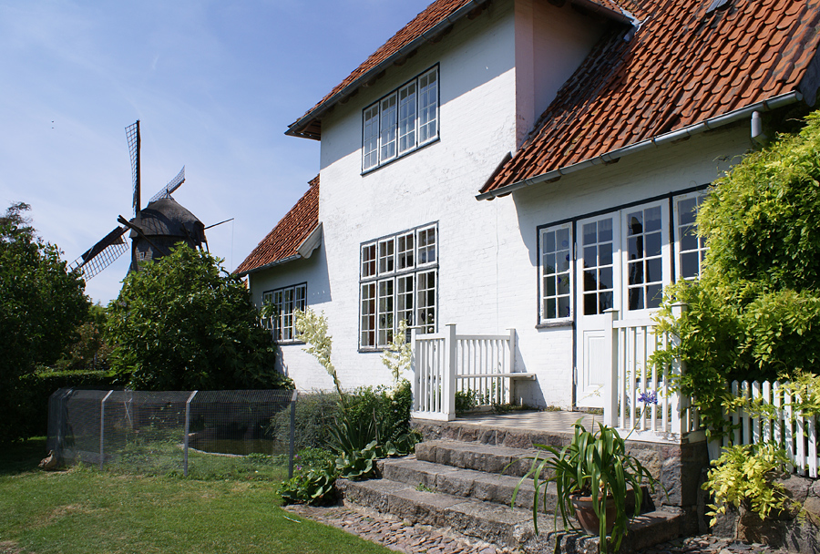 The Johannes Larsen Museum former home of the Danish painter Johannes Larsen in Kerteminde, Funen, Denmark, now converted to an art museum. The old and still functioning windmill in the background is also part of the museum.